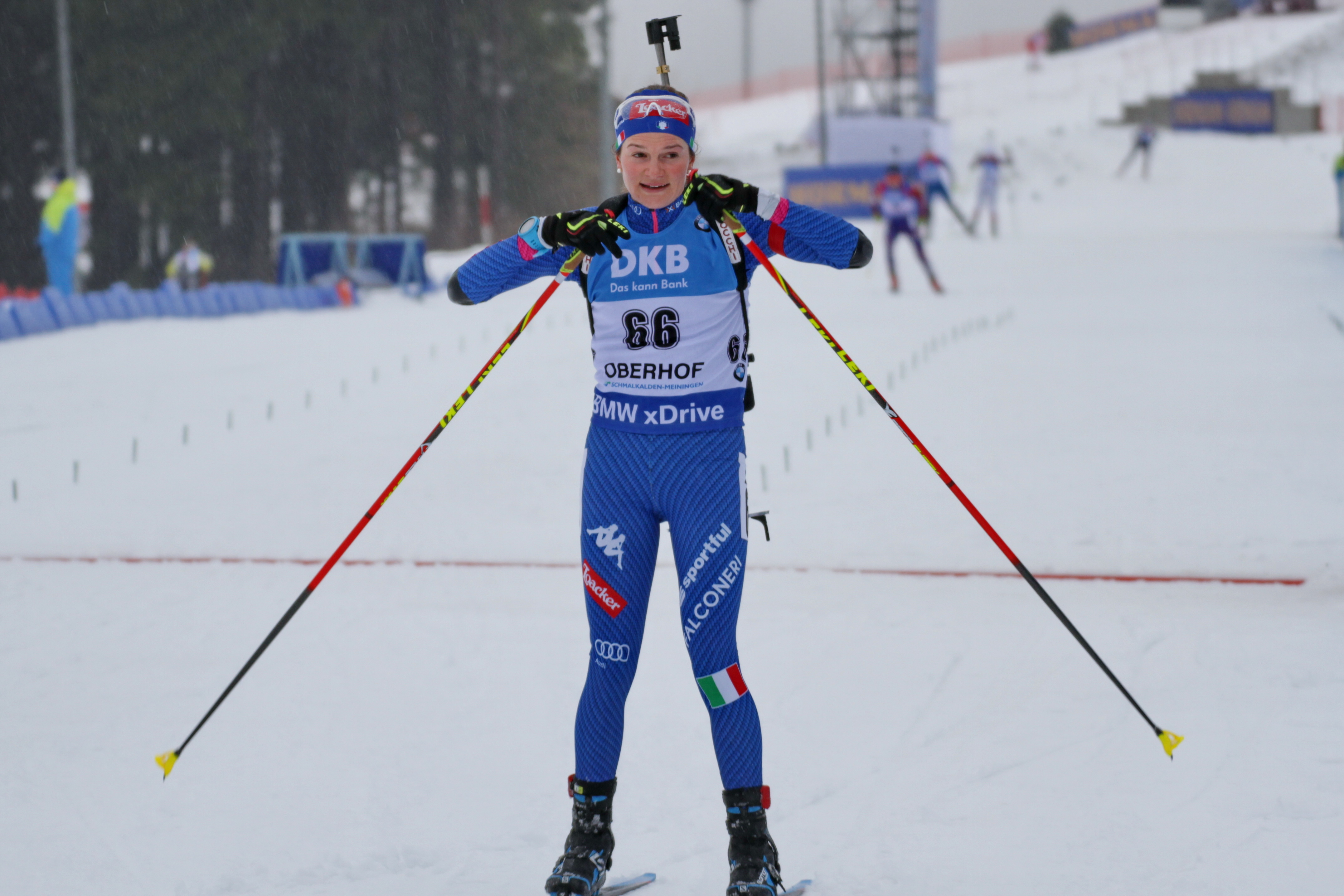 2018 Oberhof Biathlon World Cup - Sprint Women